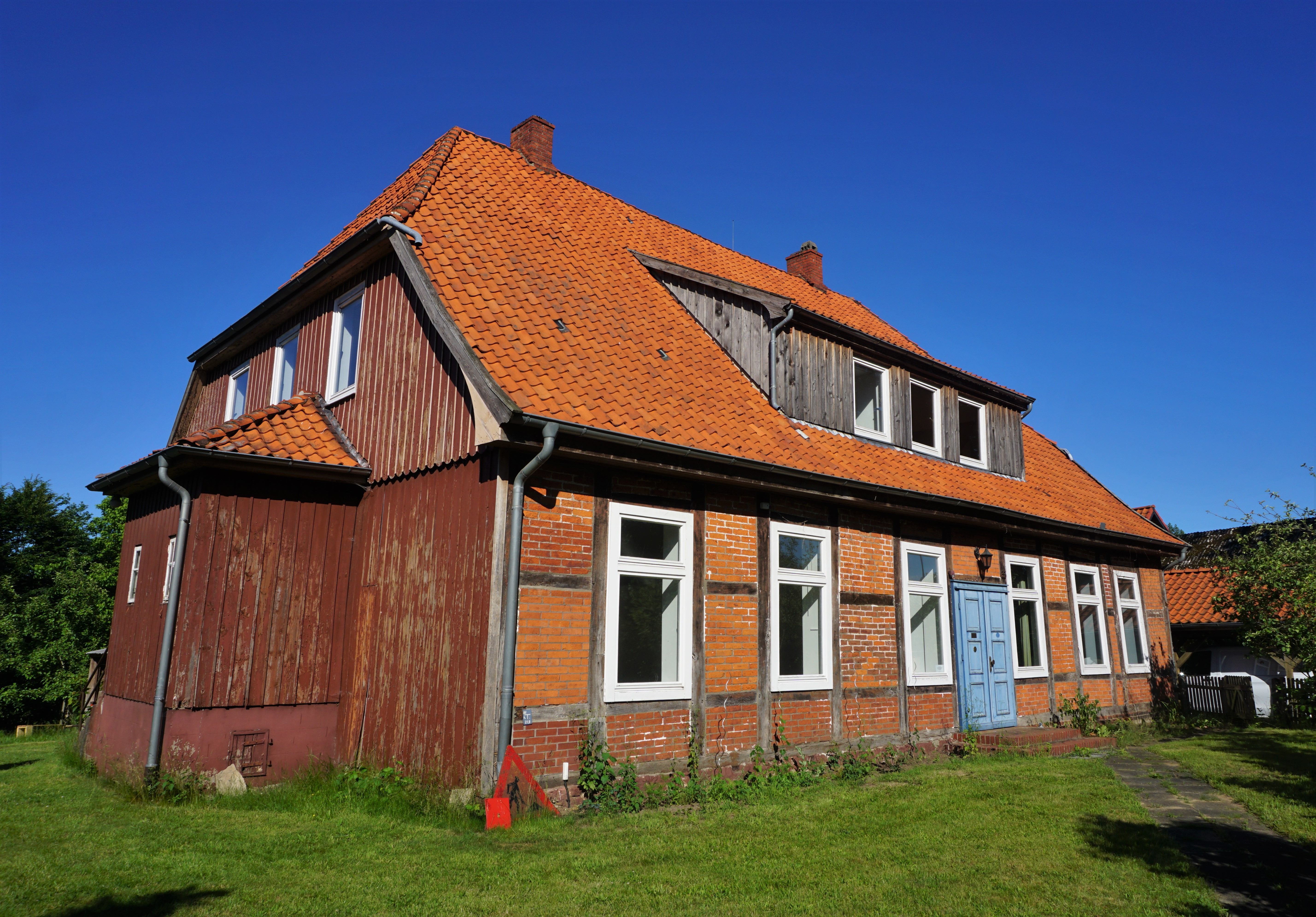 Clergy house of Wichmannsburg in Bienenbüttel. Listed half-timbered house.